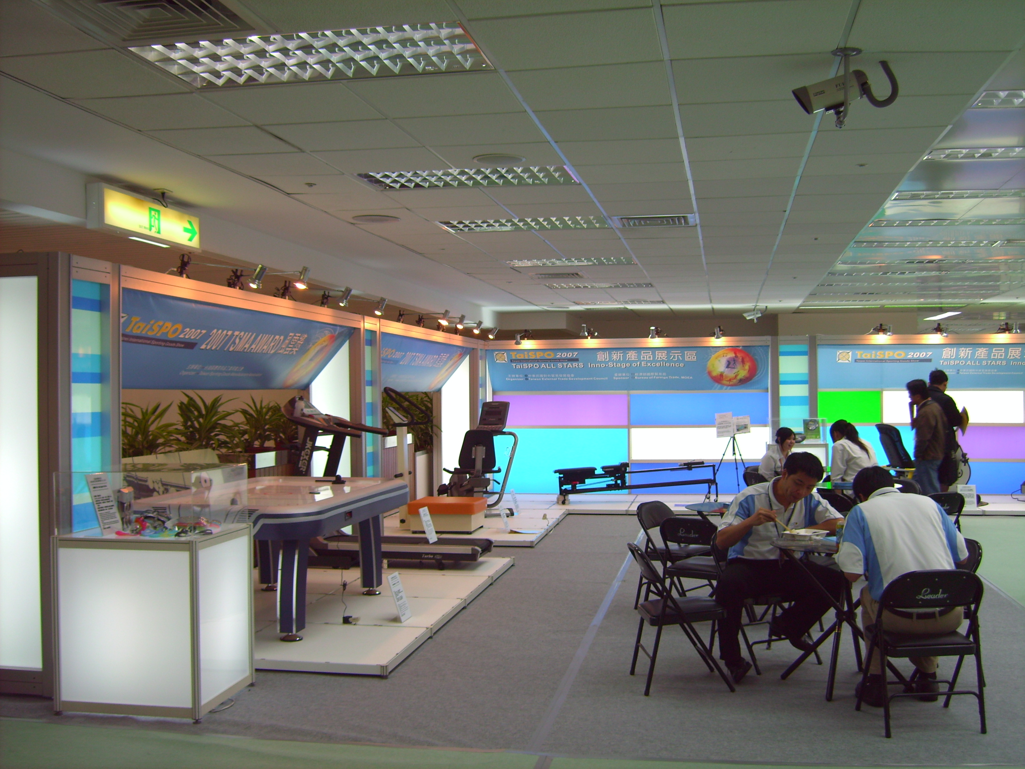 Inno-Product Area at 2007 the 34th TaiSPO.